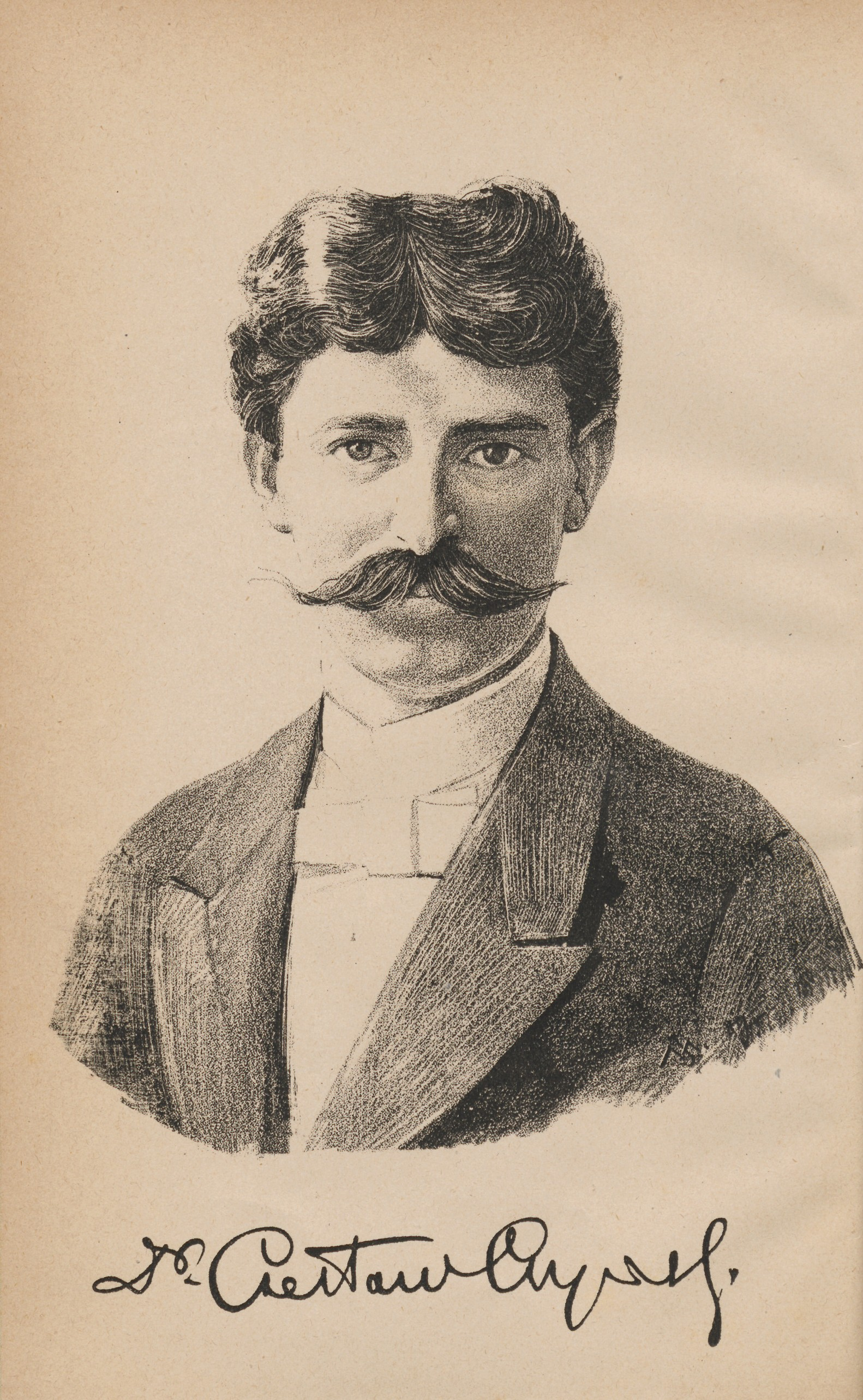 Czesław Czyński